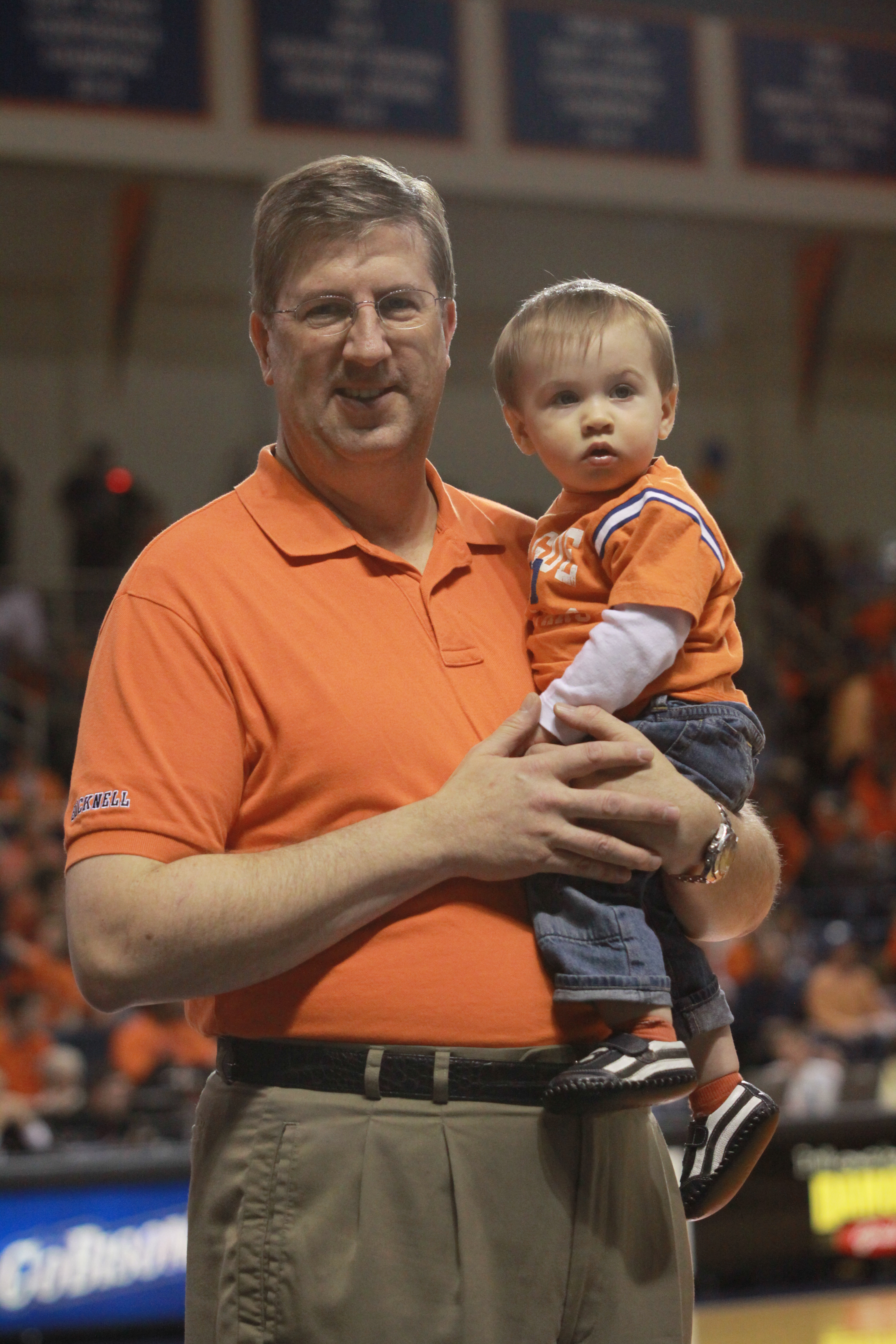 John C. Bravman and his son at the Patriot League's final game with Bucknell vs Lafayette.